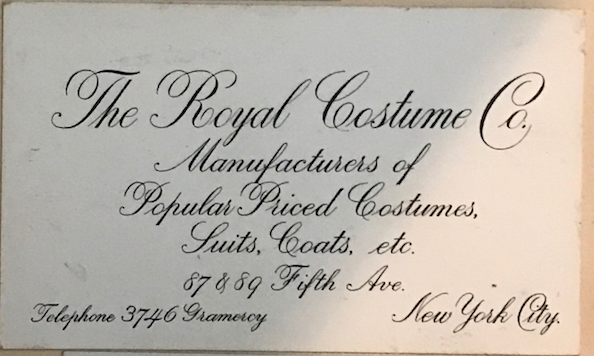 Business card of The Royal Costume Co., founded and owned by Max Samuel Grifenhagen